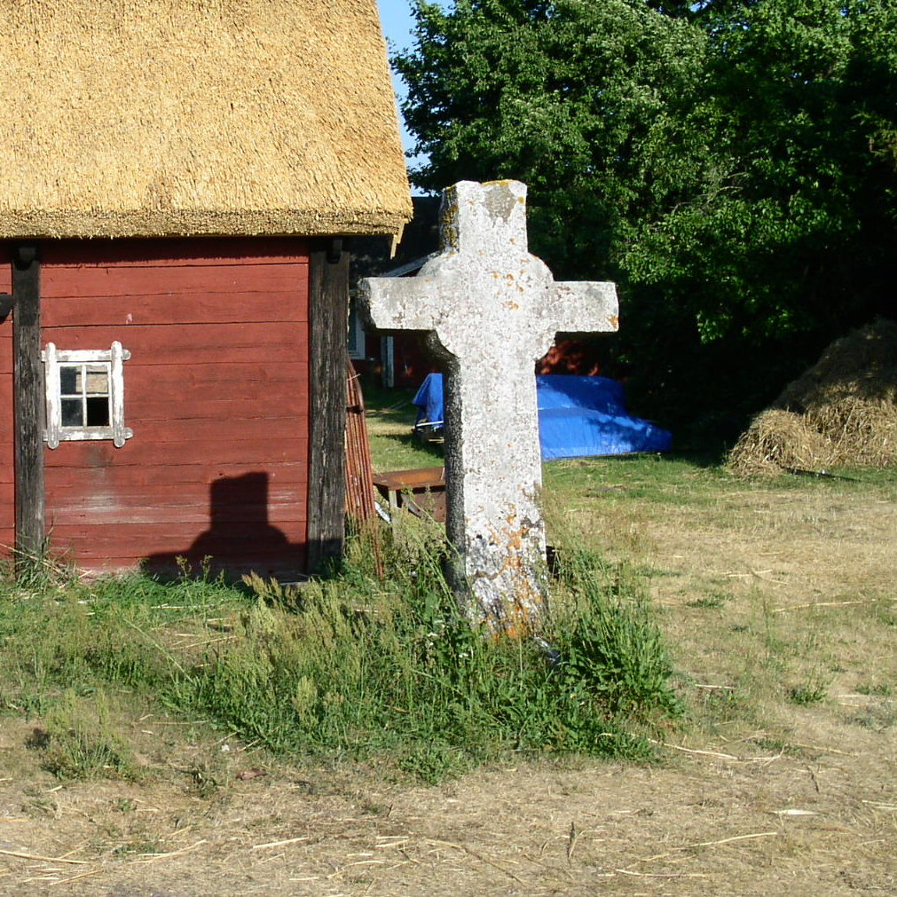 Stone Cross at Föra kyrka, Öland, Sweden, erected for the priest Martinus killed at this place 1431